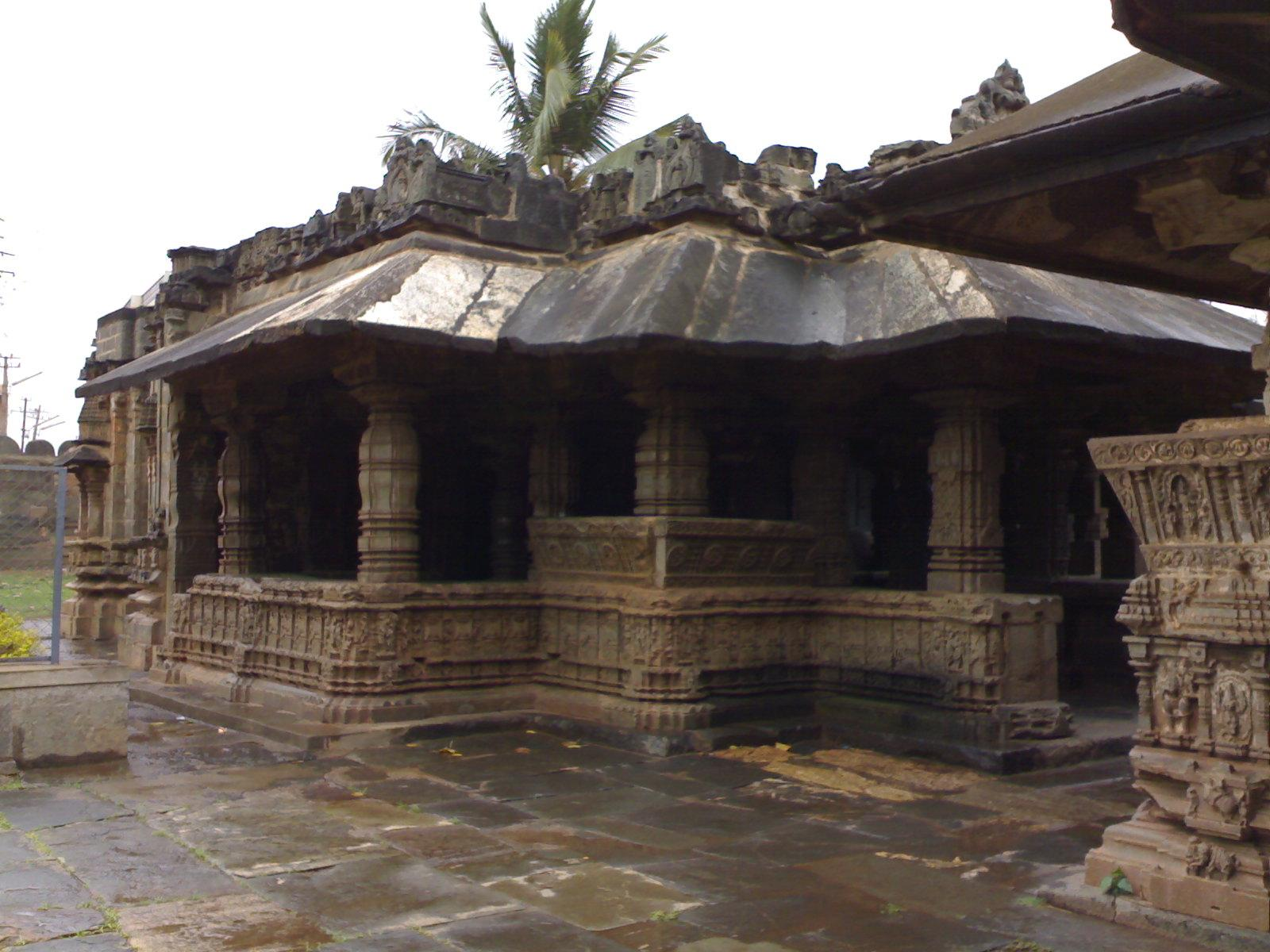 Gadag Trikuteshwara temple complex Source and Author : Manjunath Doddamani, Gajendragad / Hubli, Karnataka(North), India